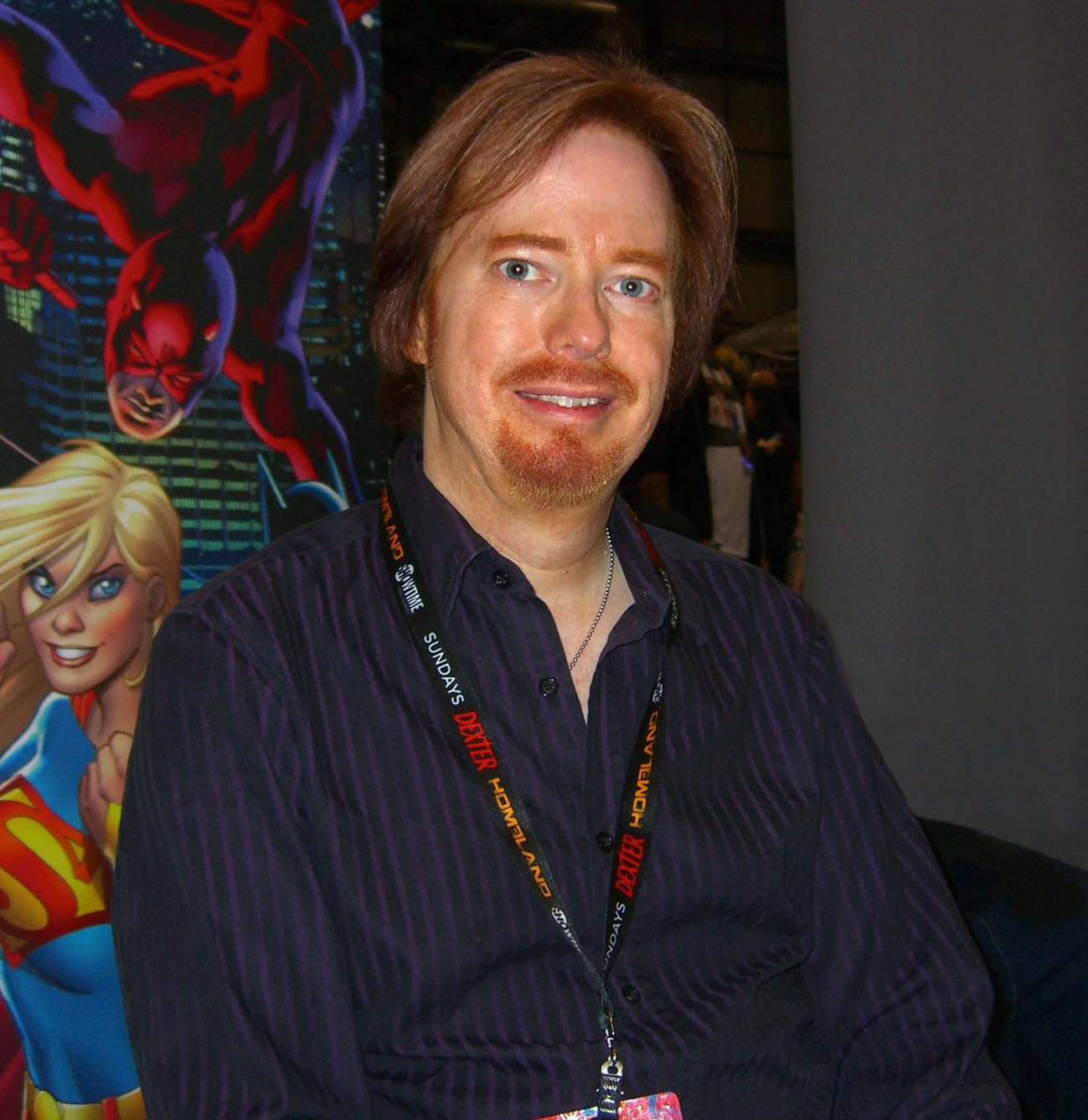 Comics creator Paul Mounts at the New York Comic Con, October 15, 2011. This photo was created by Luigi Novi. It is not in the public domain, and use of this file outside of the licensing terms is a copyright violation.